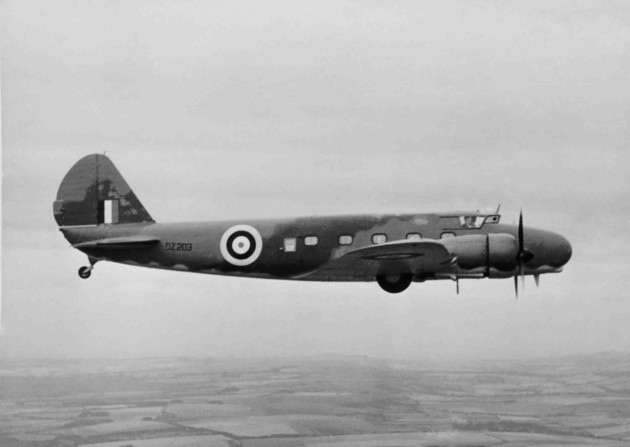 Boeing 247D DZ203 in RAF markings shortly after being assembled in the UK. This aircraft, originally Boeing serial 1726 and shortly known as NC13344, was purchased by the Canadian National Research Council (NRC) before WWII, where it became CF-TBA (RCAF 7655). As part of the Tizard Mission, an aircraft was to be fit with US versions of the British radar systems, but a US built aircraft was not available, so the NRC offered CF-TBA. After test fitting the systems in Canada, the aircraft was disassembled and shipped to the Liverpool Docks in July 1941. The aircraft was re-assembled and became DZ203. DZ203 spent most of the war as part of the TFU experimental flight of the Telecommunications Research Establishment, the Air Ministry group developing airborne radar systems. It was flown primarily from RAF Defford after May 1942, after brief periods at Christchurch and Hurn, following the TRE as it moved about the UK during the war. It was used extensively over the Irish Sea In 1944 the aircraft was completely refurbished as a testbed aircraft for instrument landing systems. In June 1944 it was shipped to the US to fit an all-electric autopilot and American blind landing equipment, returning later in the year. The aircraft was actively used in this role until 1946, but was scrapped in 1947.